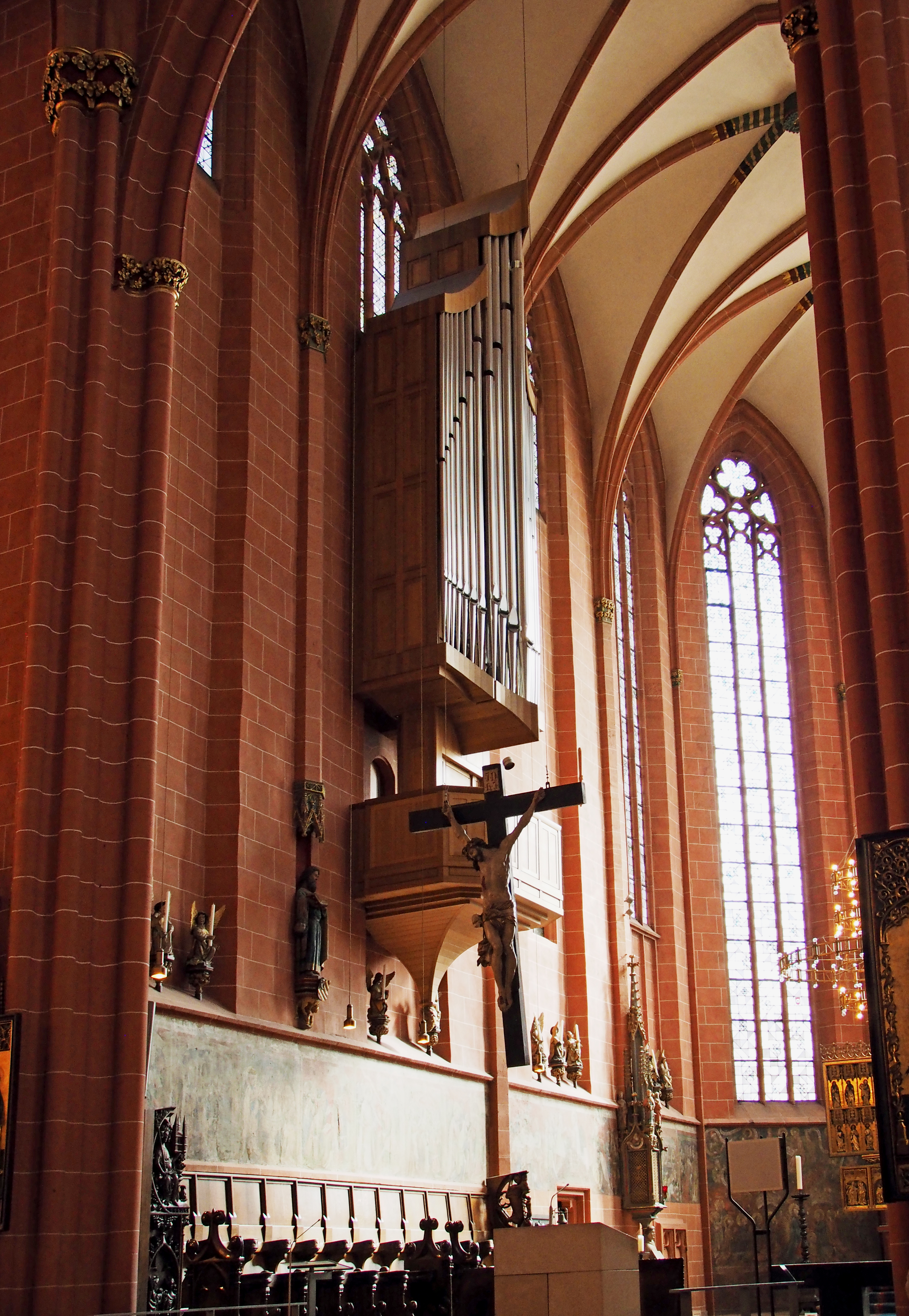 Organ of Cathedral Saint Bartholomäus in Frankfurt, Germany.